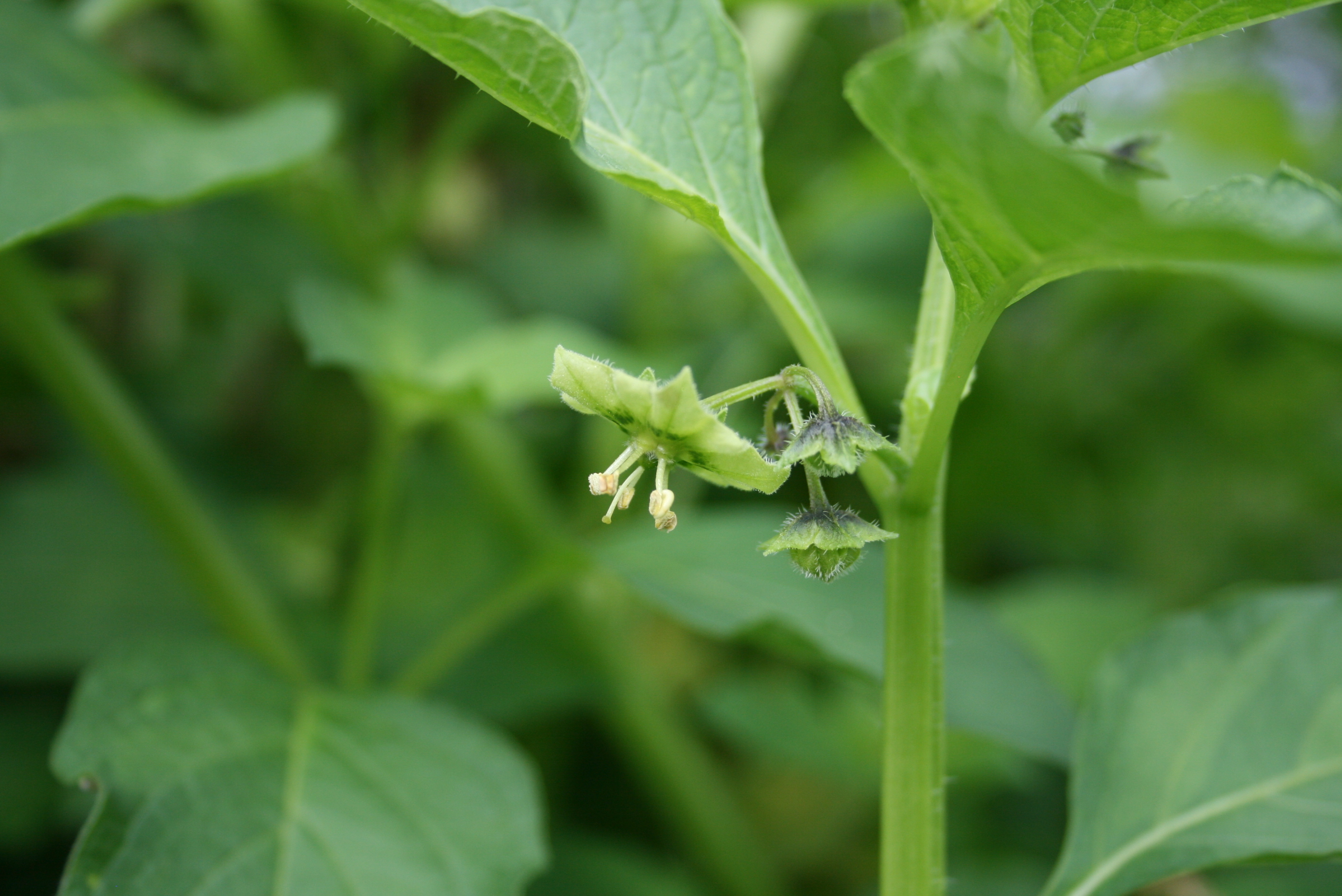 The creeping false holly (Jaltomata procumbens).